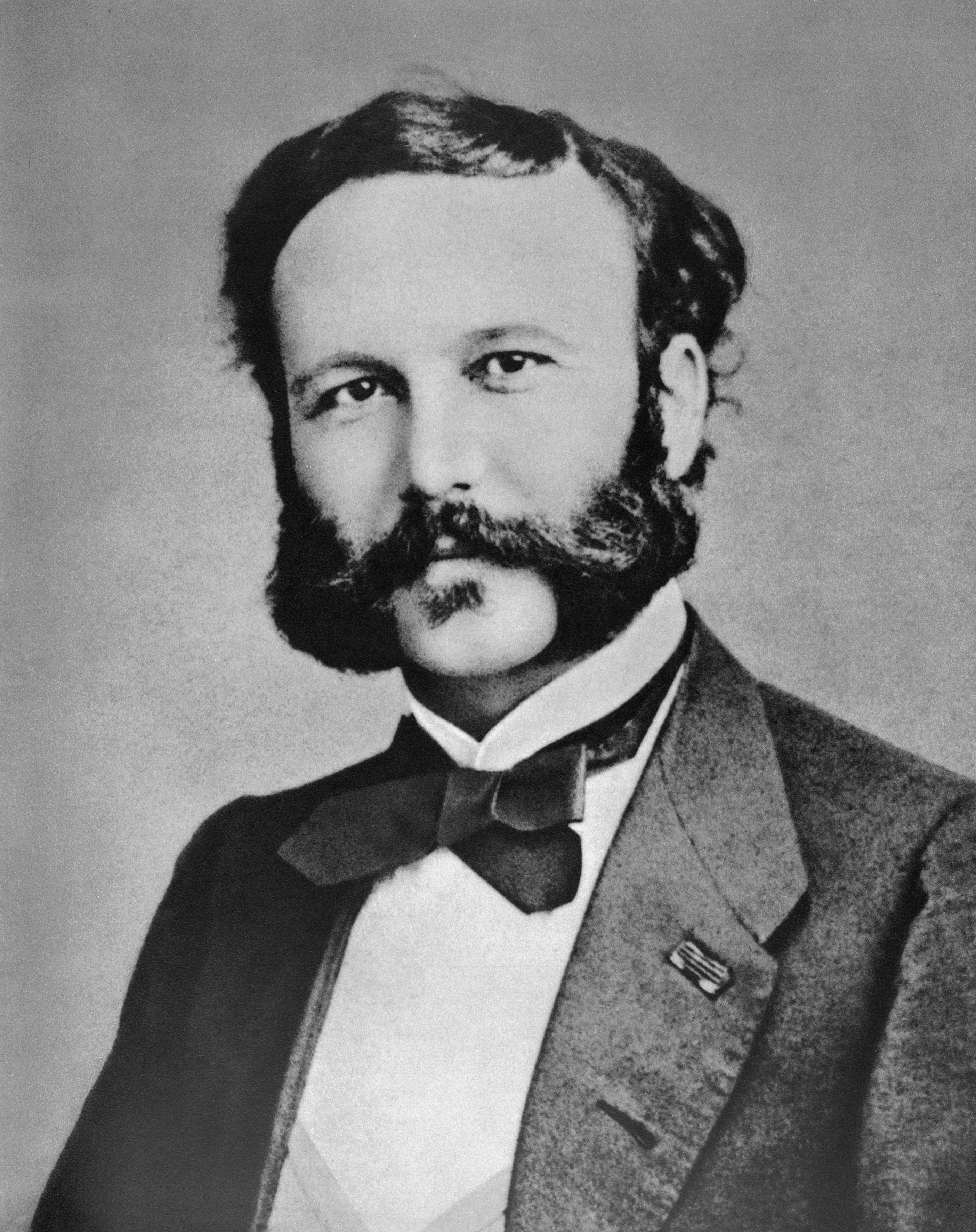 Henry Dunant (1828–1910), Swiss philanthropist and co-founder of the International Committee of the Red Cross; Nobel Peace Prize laureate 1901